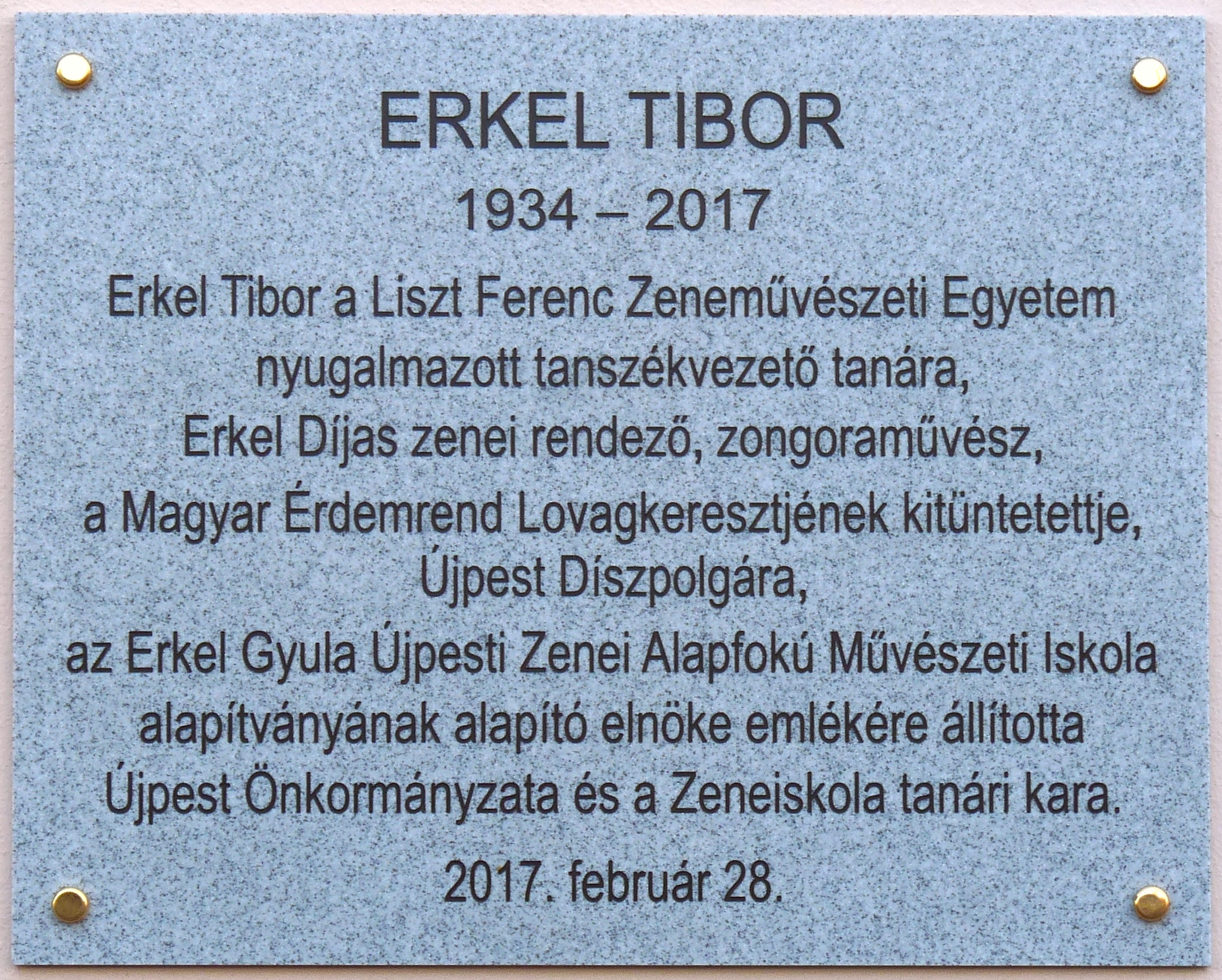 Commemorative plaque to Mr. Tibor Erkel (1934–2017) Erkel Ferenc Prize winner Hungarian director of music, professor, politician, freeman of the 4th district of Budapest and former president of the Foundation of the Erkel Gyula Elementary School of Fine Art and Music. It was affixed to the wall of the Újpest Music School on 28 February 2017. (Budapest, District IV, István Street Nr 17-19)